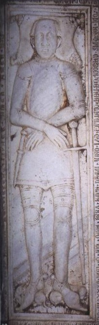 Tomb of Giovanni Carbone (XIV cent)